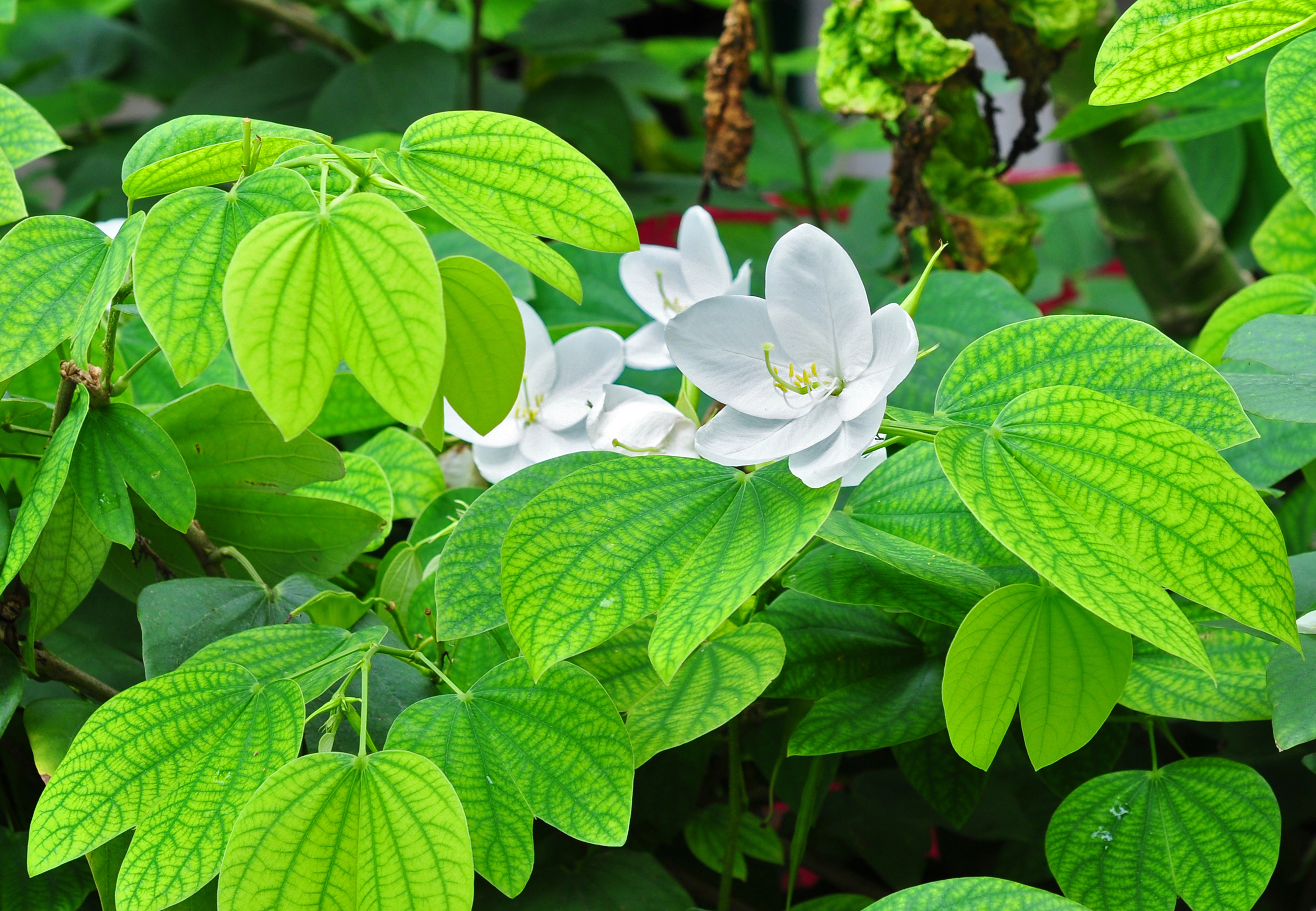 Bauhinia acuminata flower in plant.